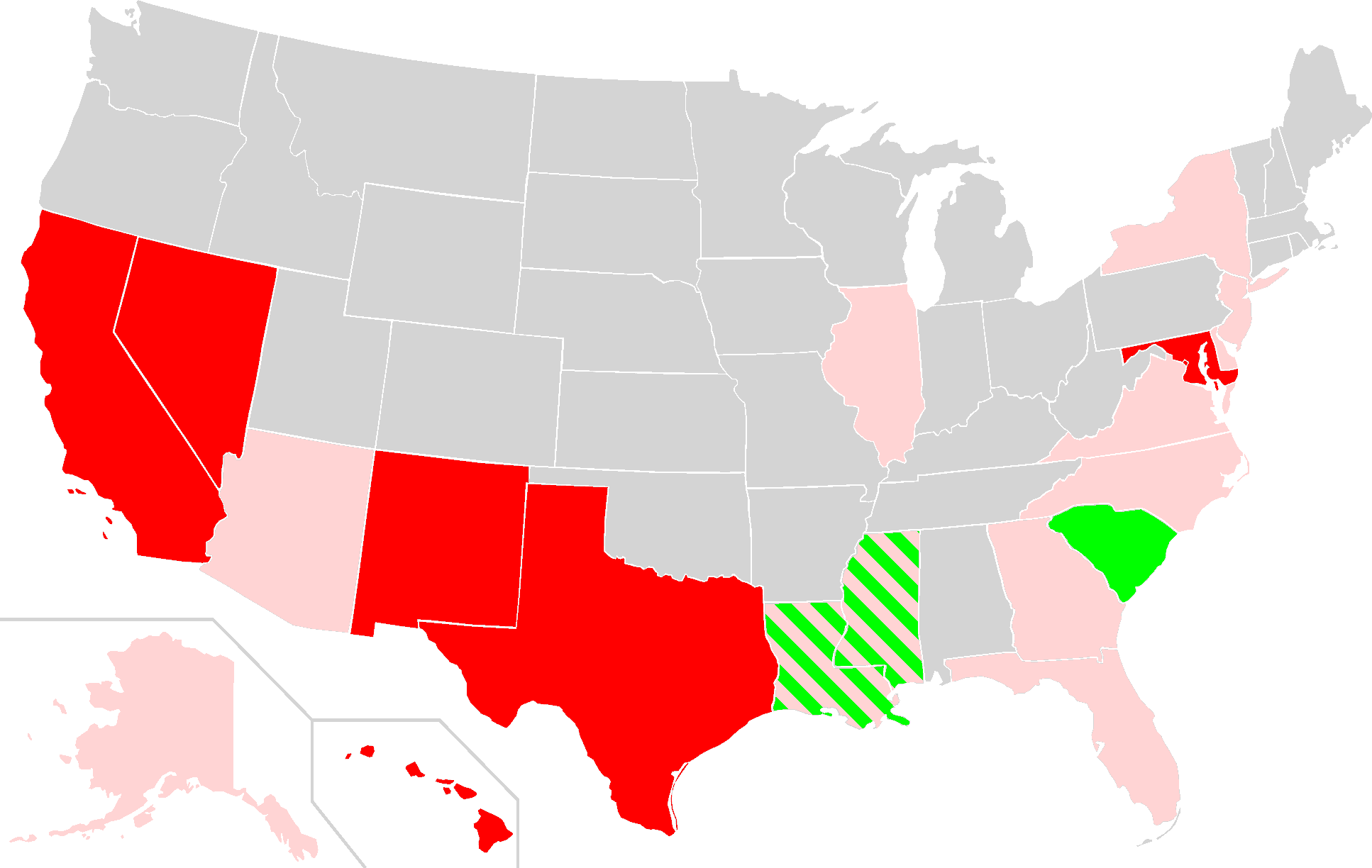 Map of USA highlighting US states and districts in which non-Hispanic whites currently are a minority or plurality (red) or were formerly a minority or plurality (green). States where non-Hispanic whites are currently less than 60% of the population are colored in pink. For more info see Majority-minority state. Current majority-minority states Former majority-minority states States where non-Hispanic whites are currently less than 60%